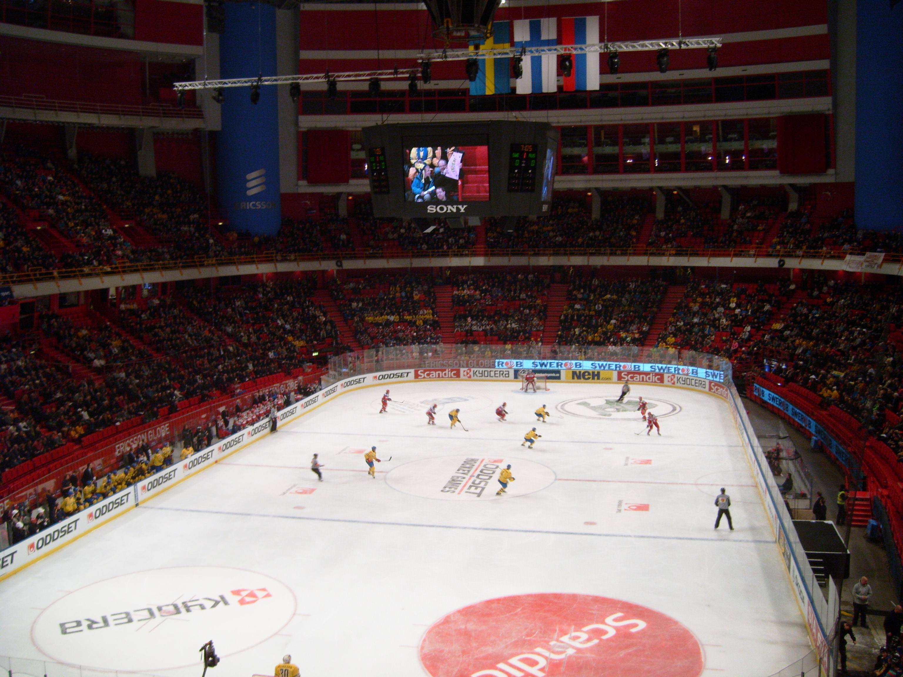 Ice hockey game between Sweden - Russia (4-1) during the tournament Oddset Hockey Games 2012 at Ericsson Globe.